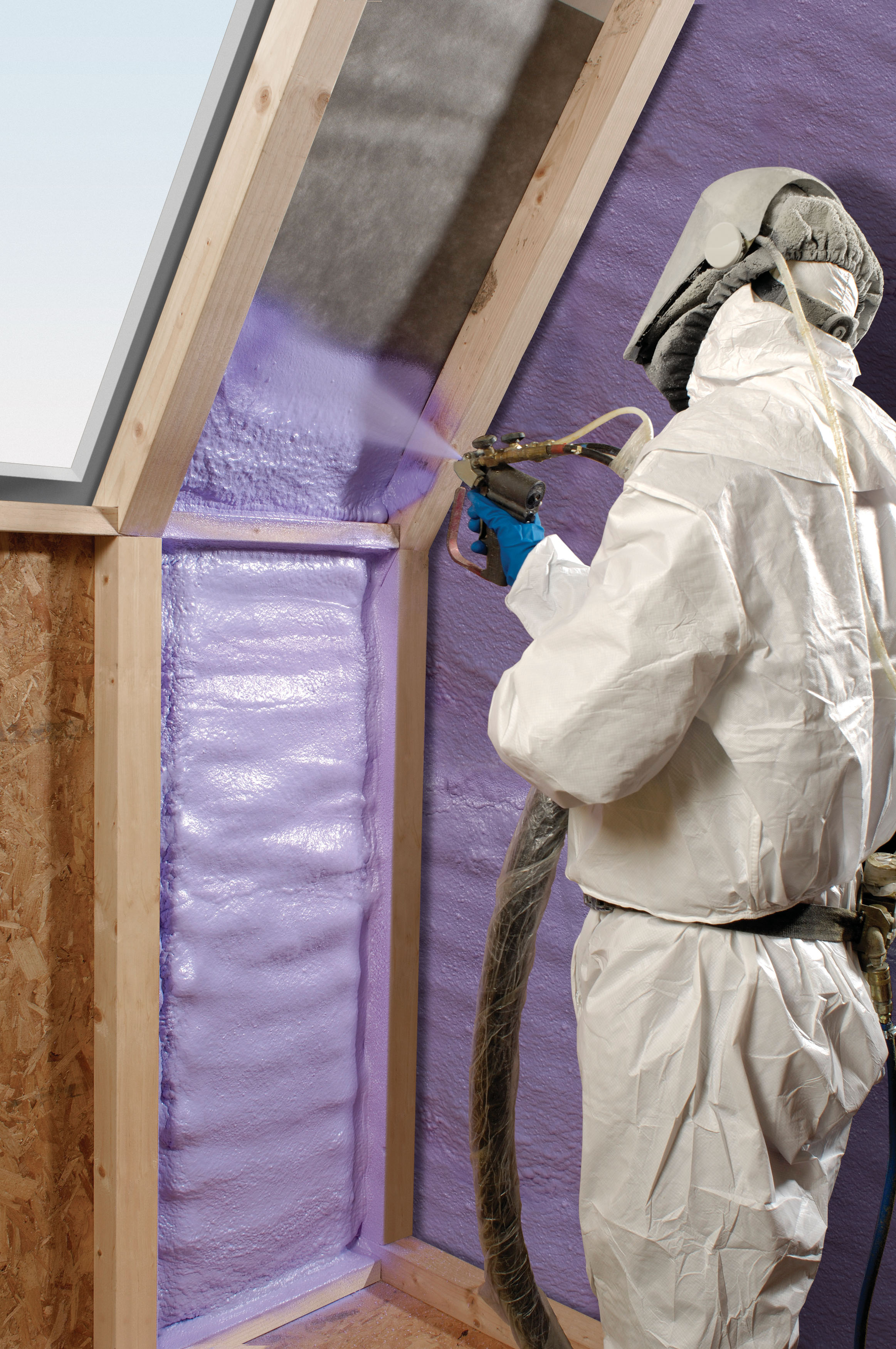 WALLTITE polyurethane spray foam insulation being applied to internal roofs and walls by a specialist spray contractor